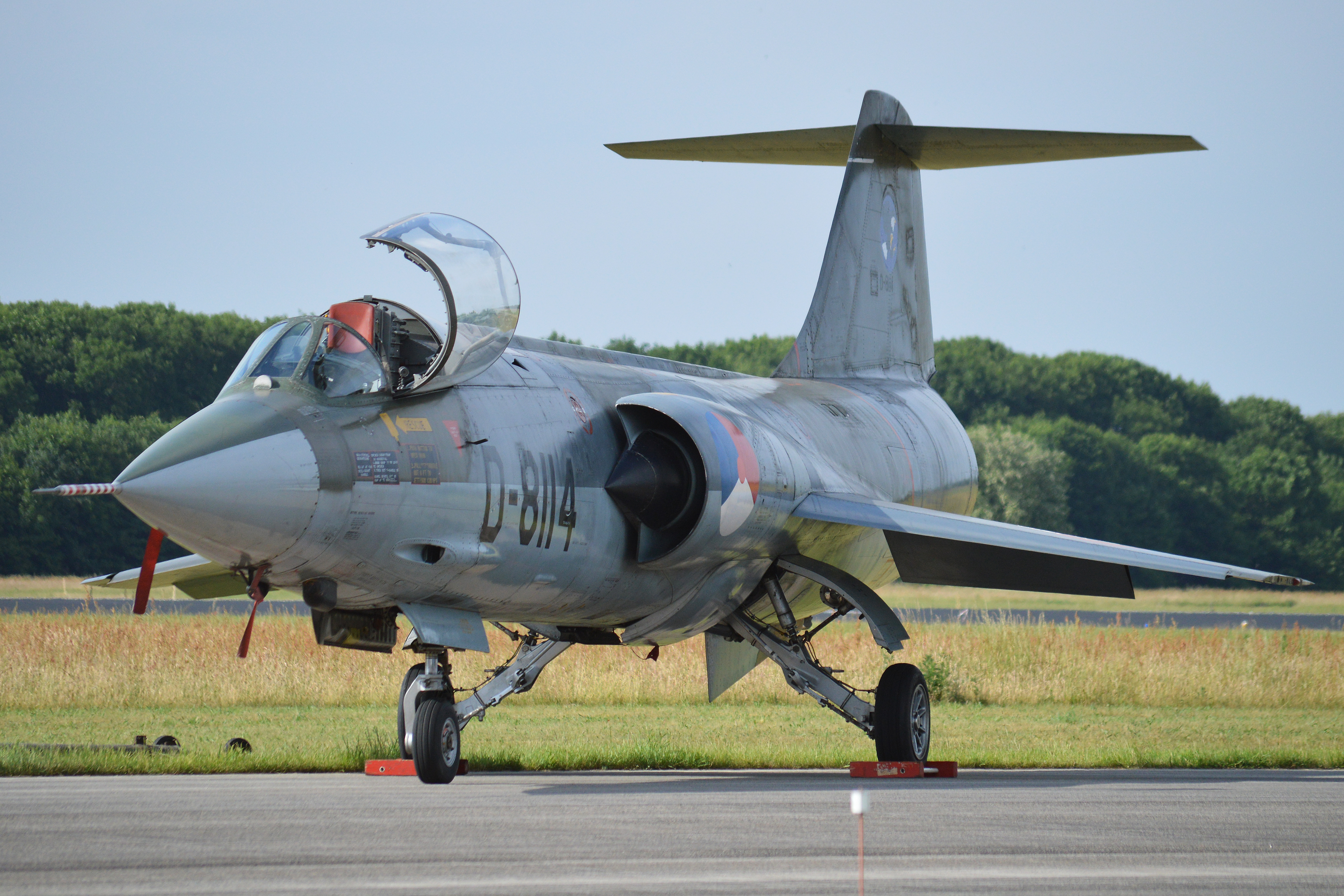 This genuine RNthAF Starfighter is in amazingly original condition and was parked on the flightline as if it was still operational (wishful thinking!). c/n 683-8114. On display at the '100th Anniversary of Dutch military aviation'. Volkel Airbase, Netherlands. 14-6-2013